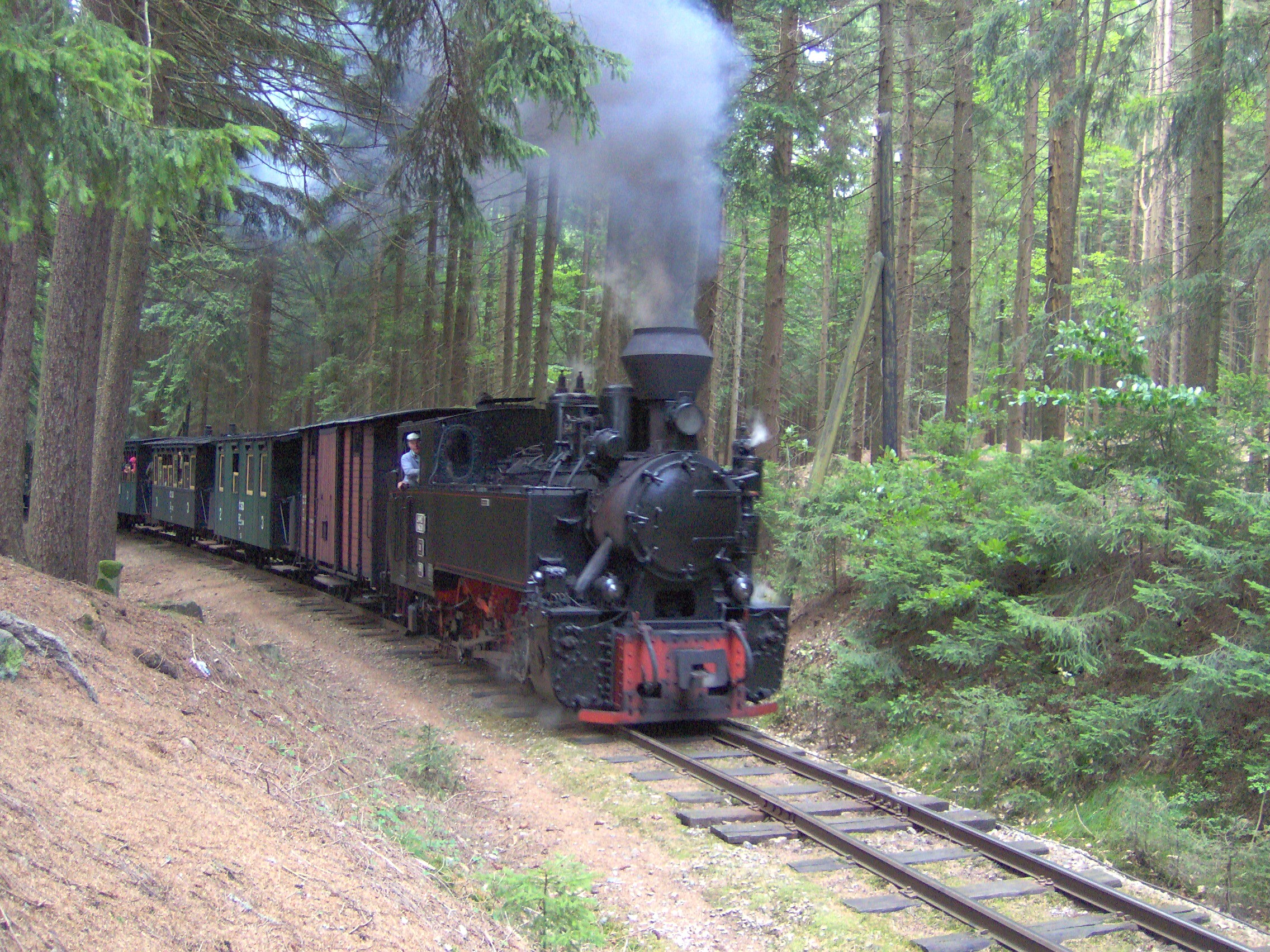 JHMD train with U 46.001 steam locomotive, Kaproun, Jindřichův Hradec District, Czech Republic